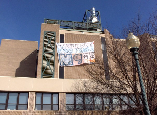 Banner drop on the campus of Central Connecticut State University, March 2006.